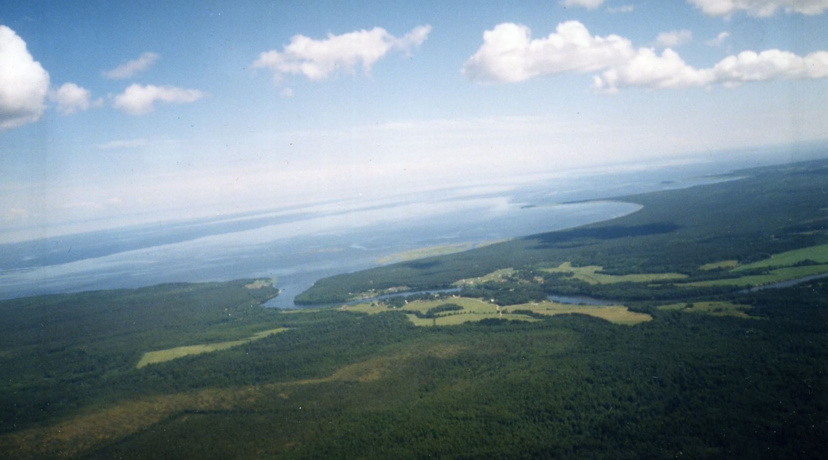 Burnaya Taipaleenjoki river